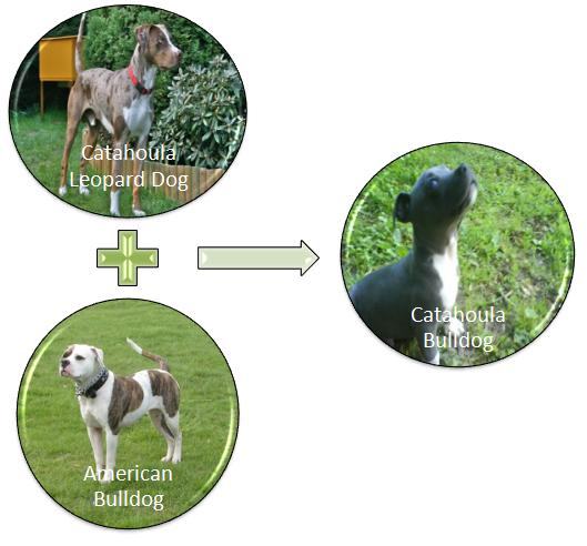 American Bulldog. Photo by sannse, May 2004.Louisiana Catahoula Leopard Dog - Red Leopard with white